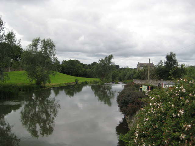 River Maigue, Bruree, Co. Limerick Looking towards Adare.